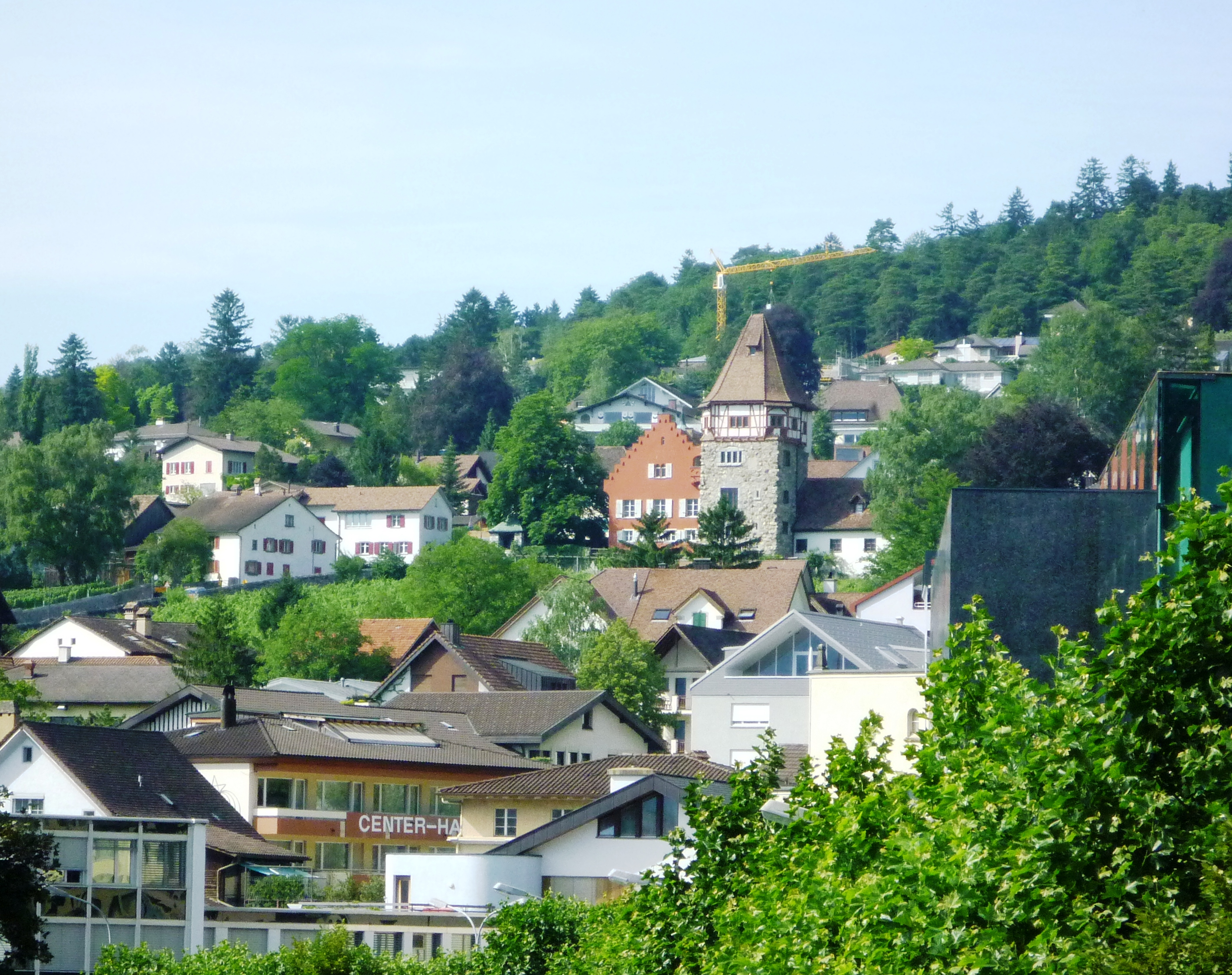 View to the Red House in Vaduz, Liechtenstein